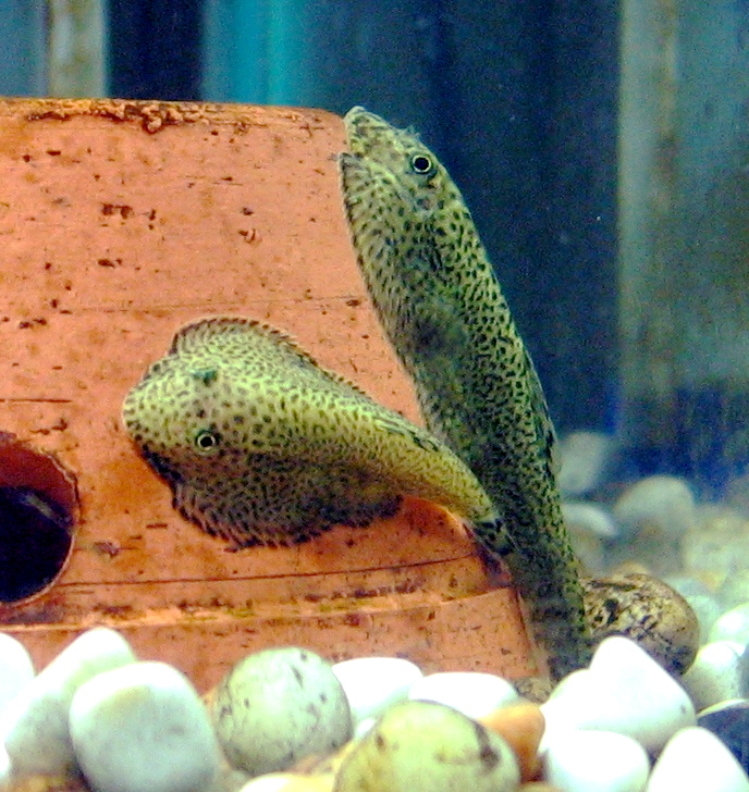 A pair of Hillstream Loaches Beaufortia kweichowensis, size about 3.5 cm (left) and 5 cm (right).